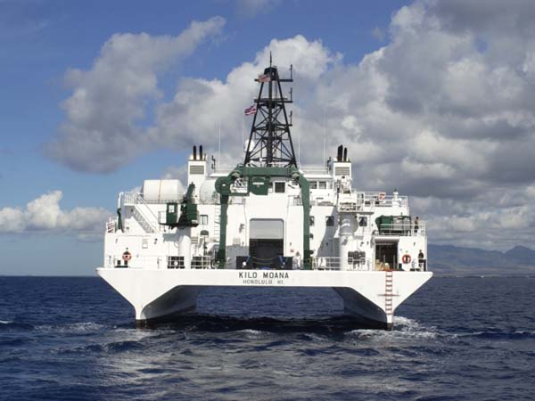 A stern (rear) view of the ship. Note the large green A-frame on the deck that is used to deploy and recover oceanographic instruments and gear.